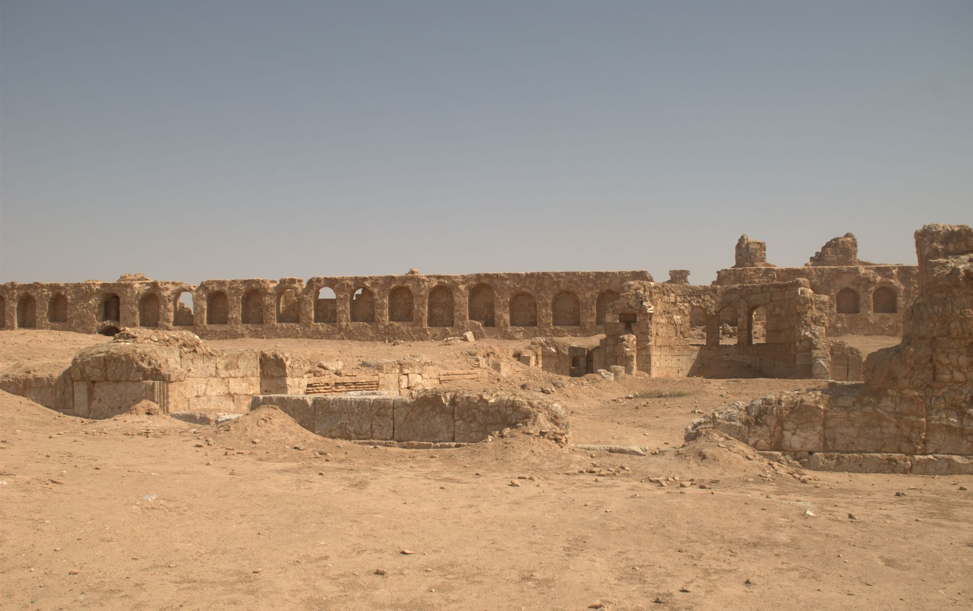 Resafa, Syria, Basilica C from west